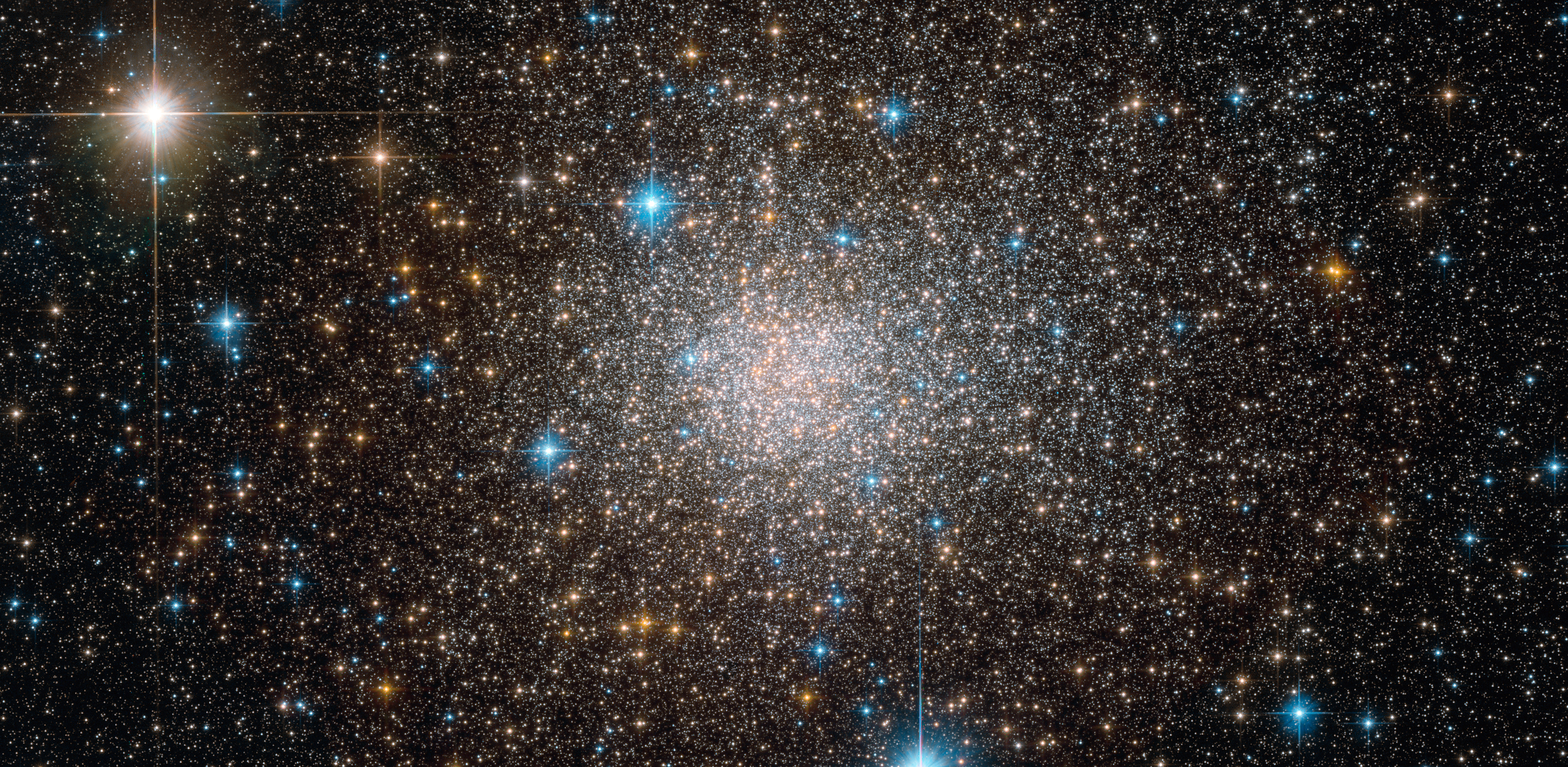 Peering through the thick dust clouds of the galactic bulge an international team of astronomers has revealed the unusual mix of stars in the stellar cluster known as Terzan 5. The new results indicate that Terzan 5 is in fact one of the bulge's primordial building blocks, most likely the relic of the very early days of the Milky Way. Observations were made with the Wide Field Camera 3 (WFC3) on board the Hubble, the Multi-conjugate Adaptive Optics Demonstrator (MAD) instrument on ESO's Very Large Telescope and the second generation Near Infrared Camera at the Keck Telescope.